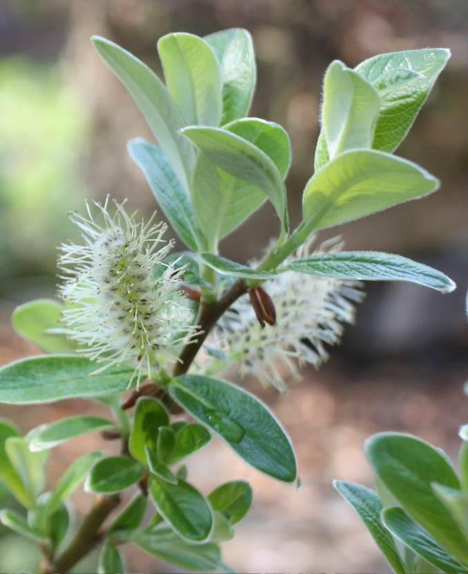 Salix helvetica, Brno, CR